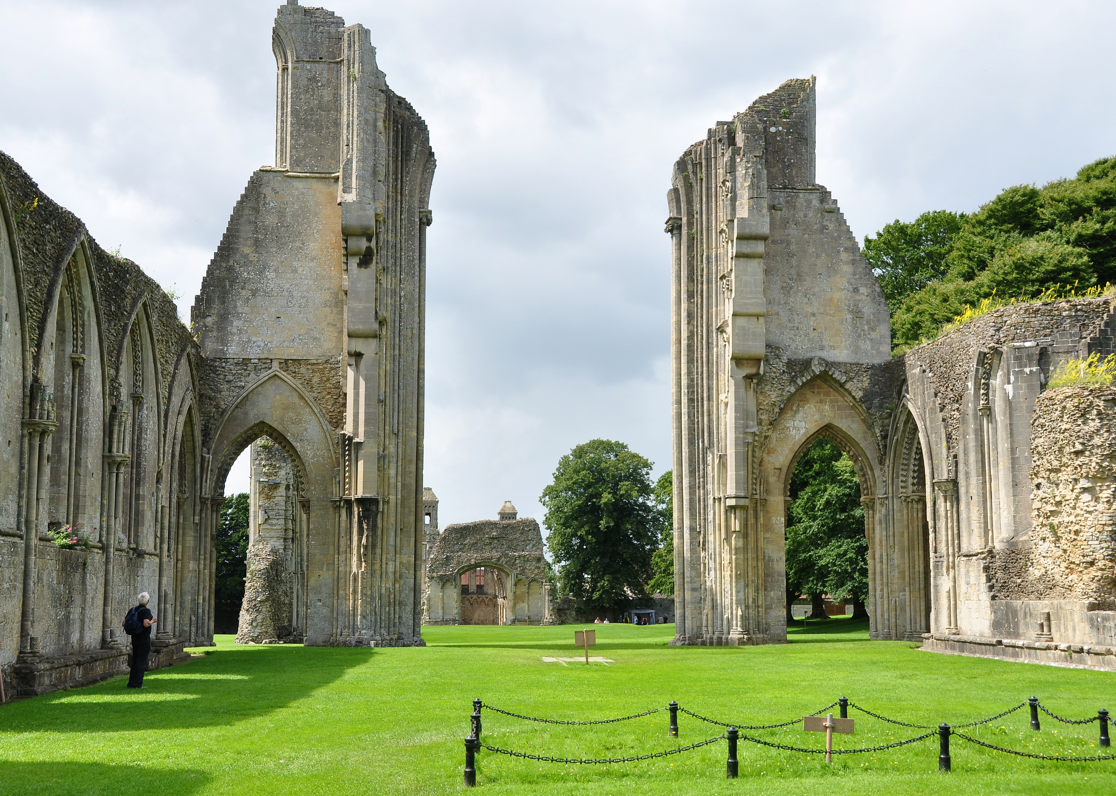 The ruins of Glastonbury Abbey church, Somerset.